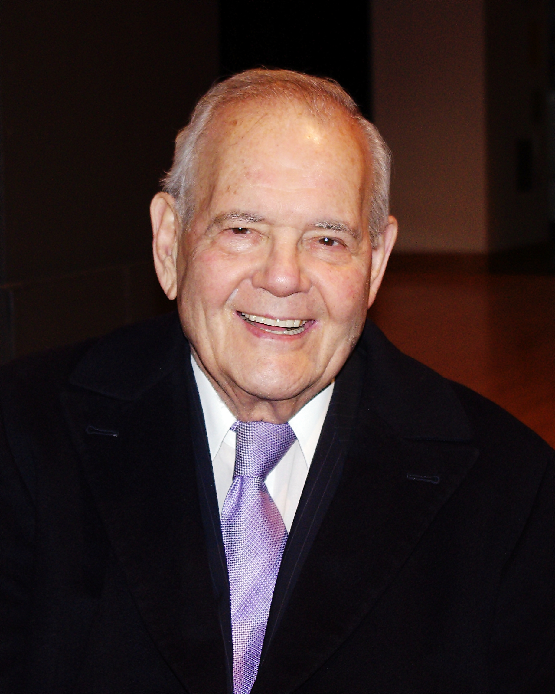 Robert B. Silvers at the National Book Critics Circle Awards, where he was awarded the Ivan Sandrof Lifetime Achievement Award.